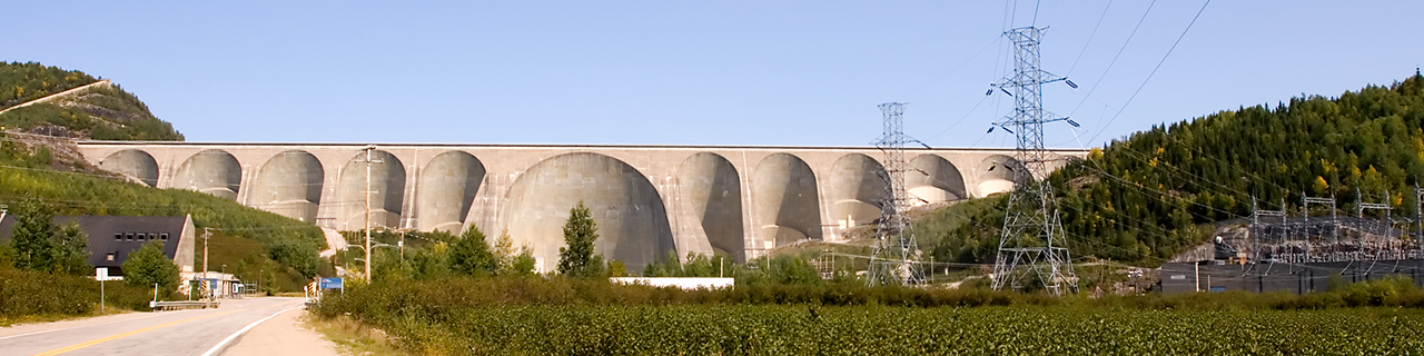 The Daniel-Johnson Dam in Quebec, Canada.